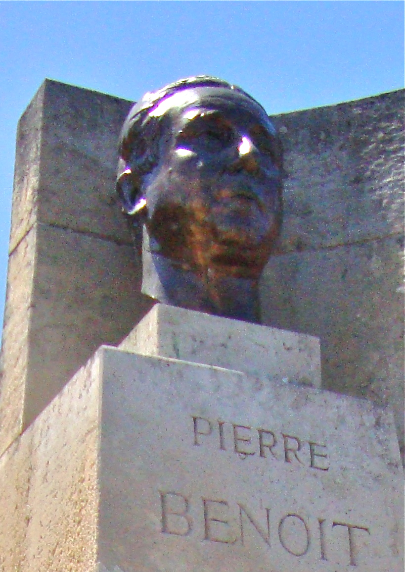 Ciboure (Pyr-Atl, Fr) Buste Pierre Benoit.